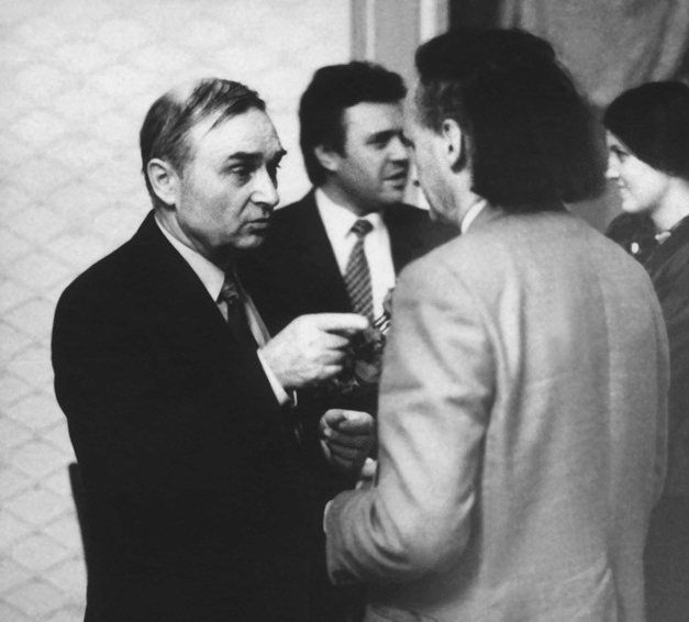 (The foreground) "The Moldavian prose writer Ion Druta and the Moldavian poet Grigore Vieru in a building of embassy of Moldova in Romania" (the beginning of 90th years).